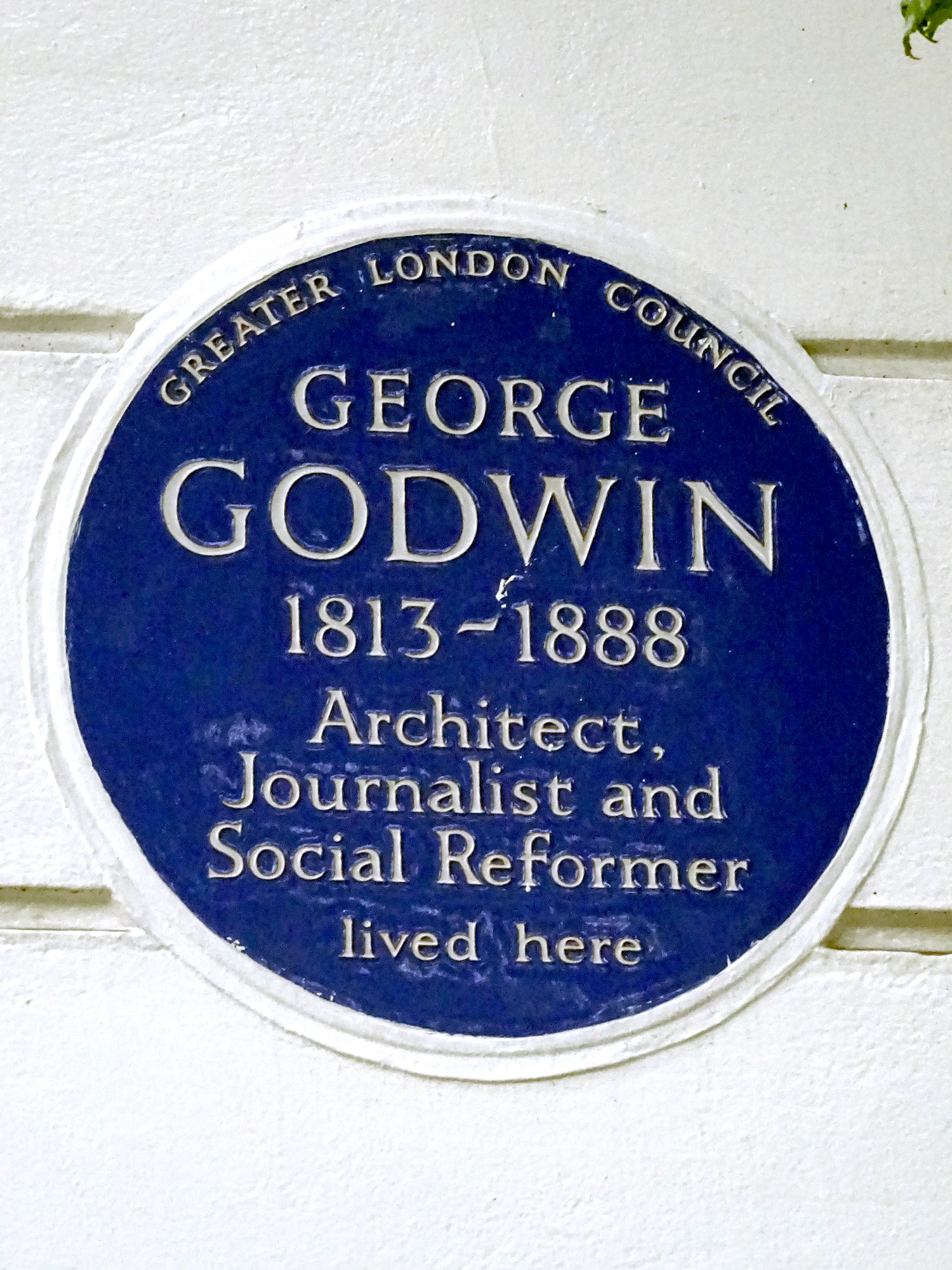 Blue plaque erected in 1969 by Greater London Council at 24 Alexander Square, South Kensington, London SW3 2AU, Royal Borough of Kensington and Chelsea